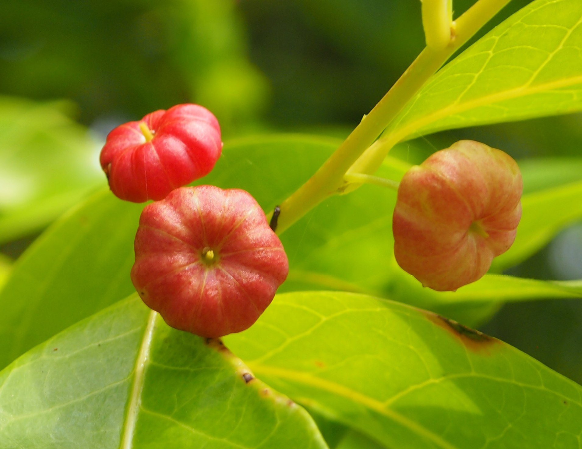 Glochidion ferdinandi fruits